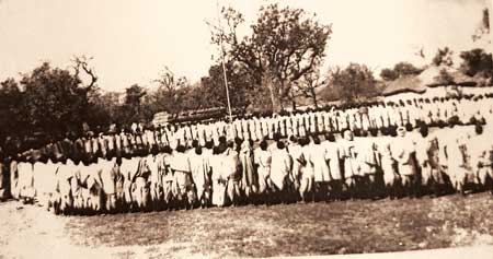 People took an oath in Pakbirra for Mannheim language movement